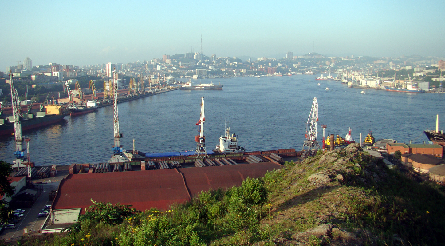 Vladivostok Commercial Port 2009